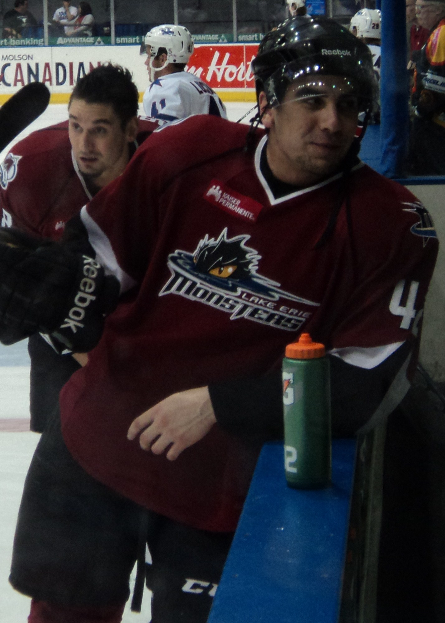 Ice hockey player Raymond Macias and Patrick Bordeleau during warm ups.